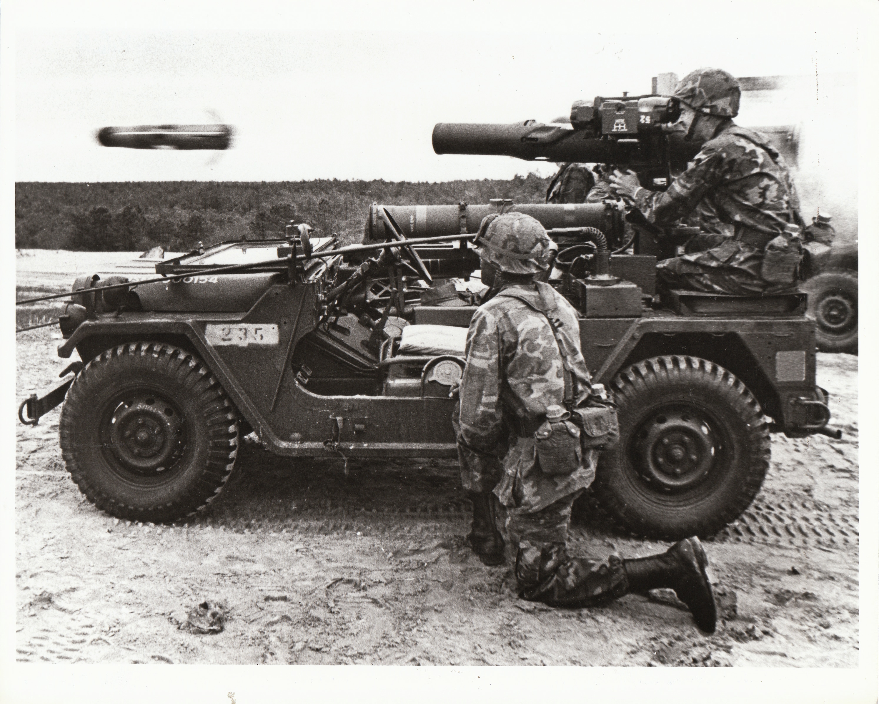 USMC Soldier firing TOW Missile from Ford M151 MUTT. TOW, which stands for Tube-launched, Optically tracked, and Wire-guided, was developed by Hughes Aircraft Company for the U.S. Army and has been adopted as an infantry anti-tank weapon by more than 20 other nations. Here members of the U.S. Marine Corps fire a TOW during first-firing exercises at Camp LeJeune, N.C. (U.S. Marine Corps photograph, Photo No. 4S 18009)